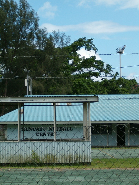 A photo of the Vanuatu Netball Centre in Port Vila, Vanuatu.